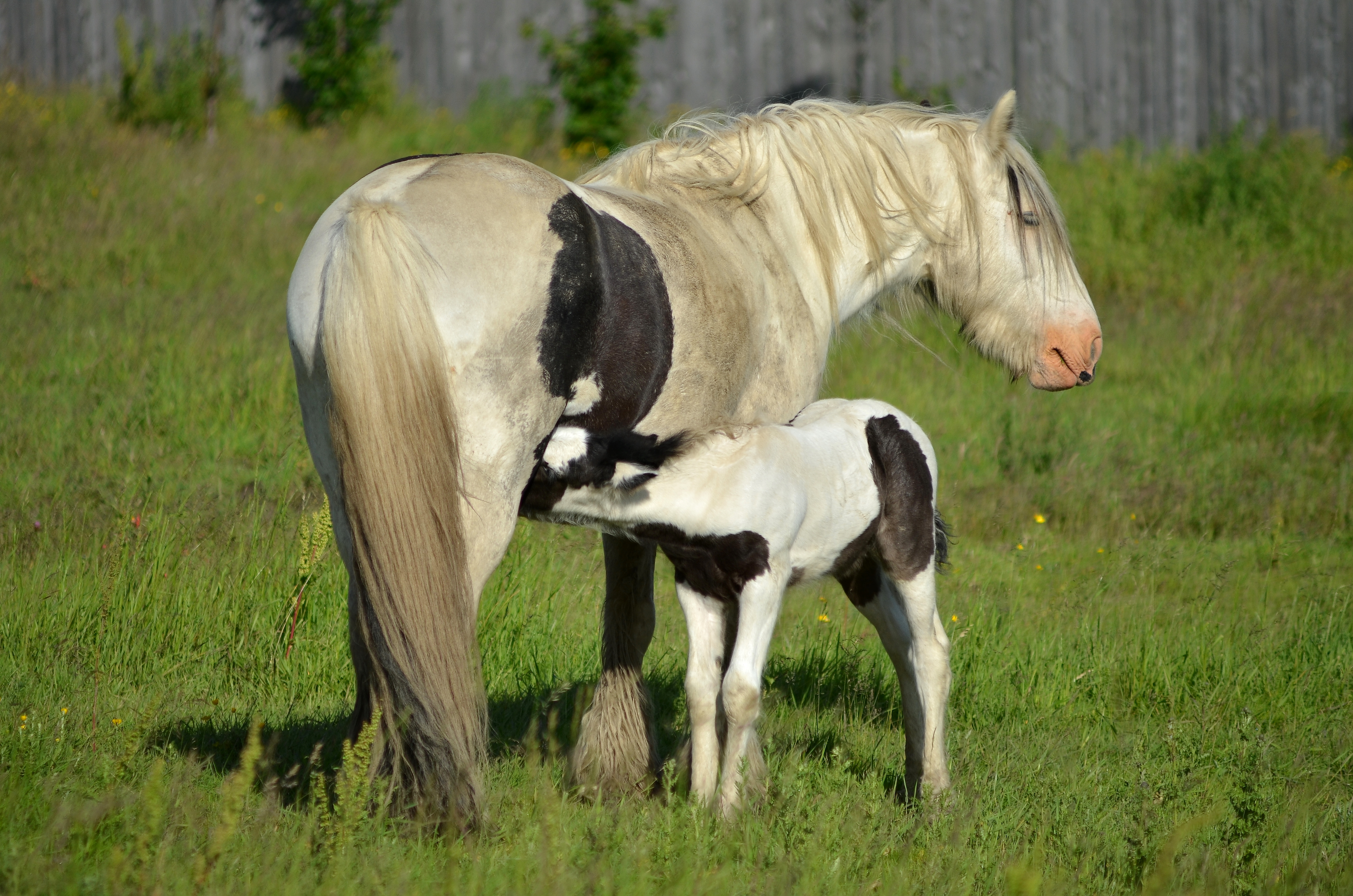 Breakfast time.